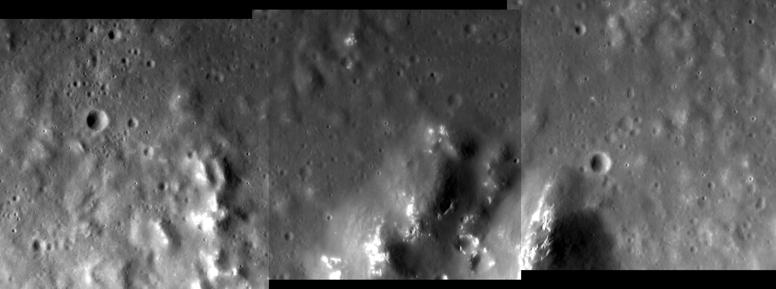 Central peaks of Brahms crater on Mercury, showing hollows. Mosaic of MESSENGER Narrow Angle Camera images (EN1055147764M, EN1055147760M, EN1055147756M). North is to the right. Stats for the center image are below: Emission Angle: 19.4 Incidence Angle: 58.7 Latitude: 58.3 Longitude: 182.4 Phase Angle: 78.1